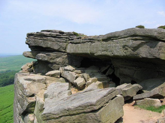 Robin Hood's Cave, Stanage Edge. Looking north and no sign of Robin!